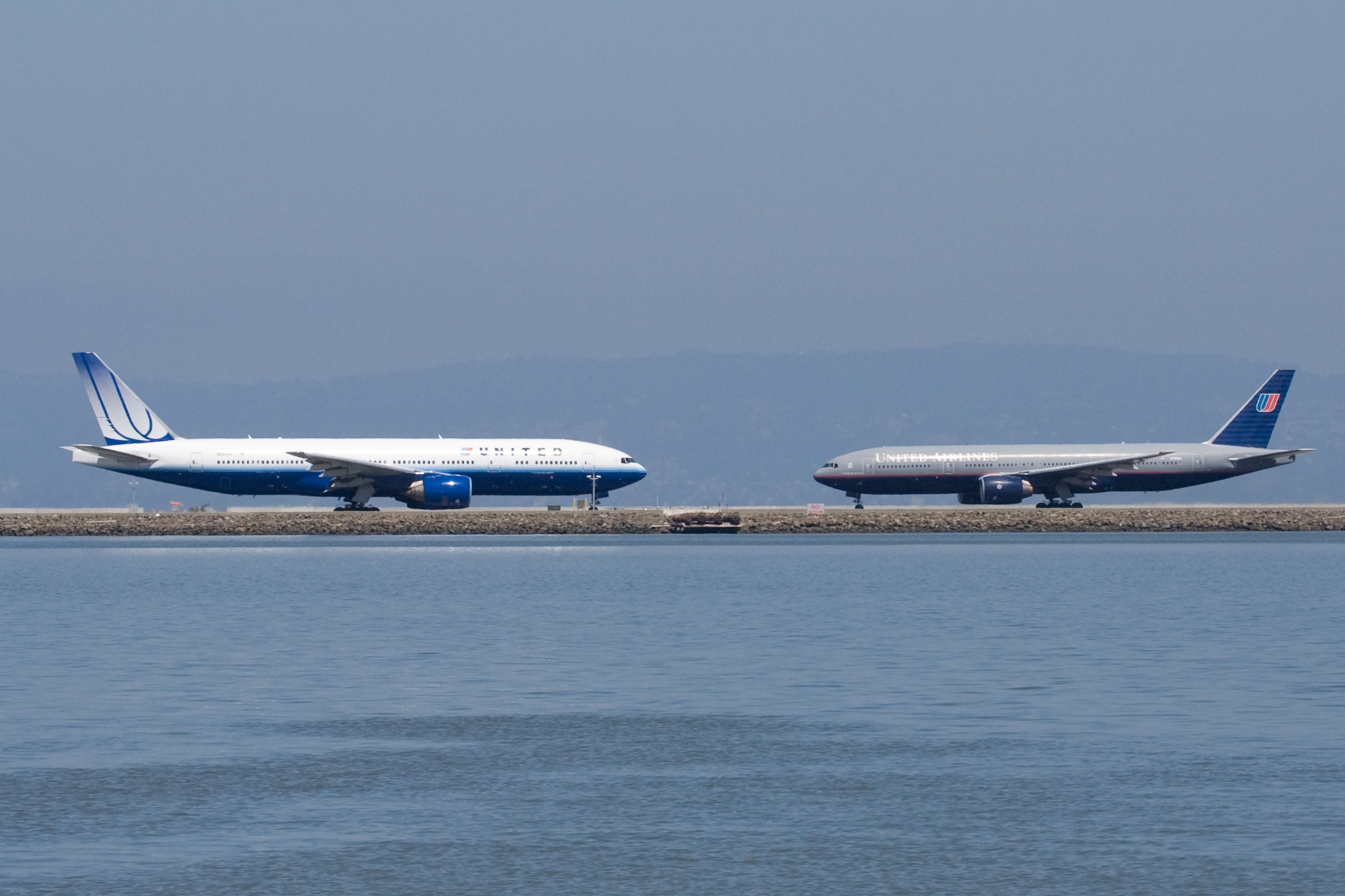 Two United Airlines Boeing 777 in different liveries. The old livery Boeing 777 (right) is on its takeoff roll on 28L, while a new livery bird (left) has some more taxing to get to the same runway.